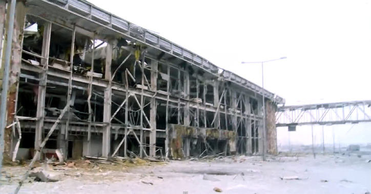 Ruins of Donetsk Sergey Prokofiev International Airport, 16 January 2015.